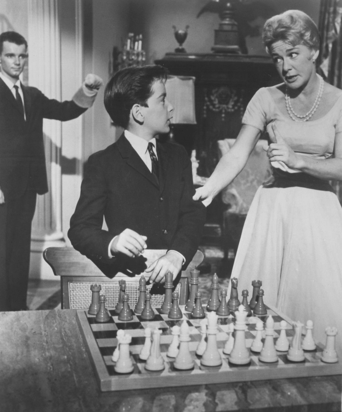 Photo of Richard Miles, Dennis Joel and Betty Hutton from the television comedy The Betty Hutton Show. Miles and Joel played two of the three kids Hutton, as Goldie, a manicurist, was the guardian of. One of her customers, Mr. Strickland, died and left his millions and his three children to her.